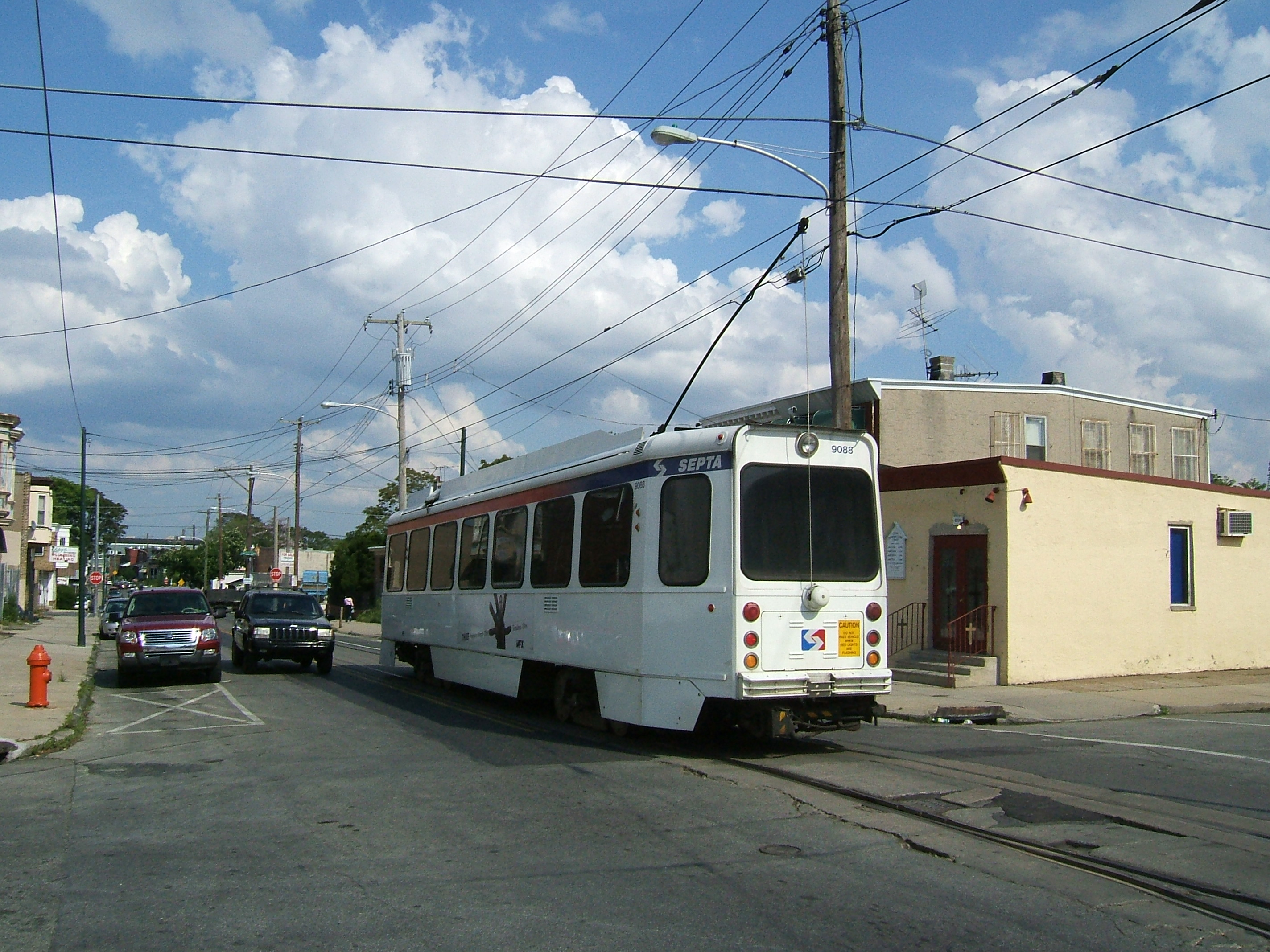 Service car at the terminus of route 15